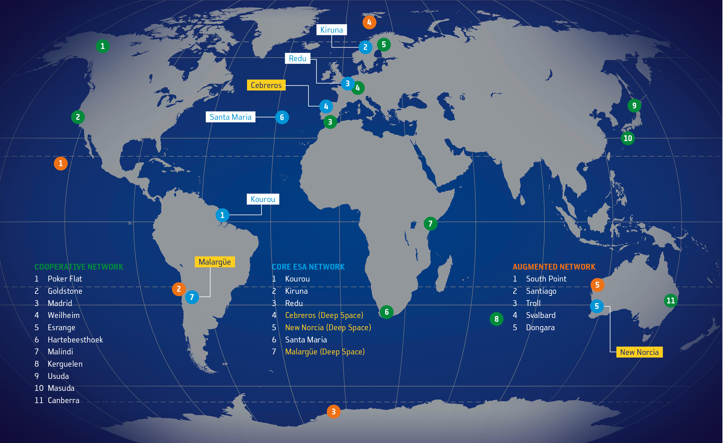 Map showing locations of ESA tracking (Estrack) stations as of 2017. Note this map is representational only and not all locations are shown with complete accuracy. Blue indicates core ESA-owned stations operated by the Estrack Network Operations Centre (NOC) located at ESA’s European Space Operations Centre (ESOC), Darmstadt, Germany. Orange indicates Augmented Estrack stations, procured commercially and operated on behalf of ESA by commercial entities. Green indicates Cooperative Estrack stations owned and operated by external agencies, but regularly providing services to ESA missions on an exchange basis. The ESA tracking station at Perth, Australia, was retired from service in December 2015. The ESA stations at Villafranca and Maspalomas, Spain, were transferred to industry in 2017. More information Deep space tracking stations via Google maps